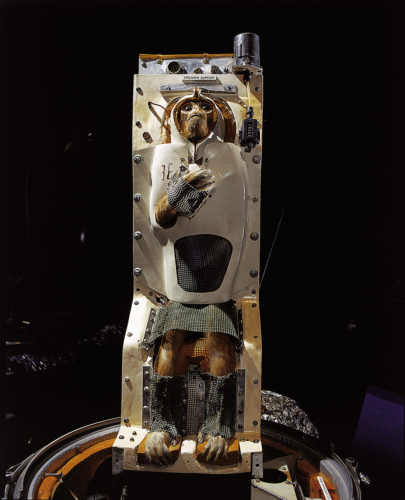 The capsule and couch used by one of America's first spacefarers, a rhesus monkey named Able, is displayed in Apollo to the Moon. Able and a companion squirrel monkey named Miss Baker were placed inside a Jupiter missile nose cone and launched on a test flight in May 1959. Image Number: SI 99-15221-0